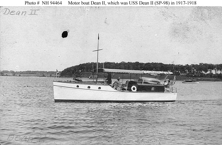 Motorboat Dean II prior to World War I and her United States Navy service as patrol boat USS Dean II (SP-98).